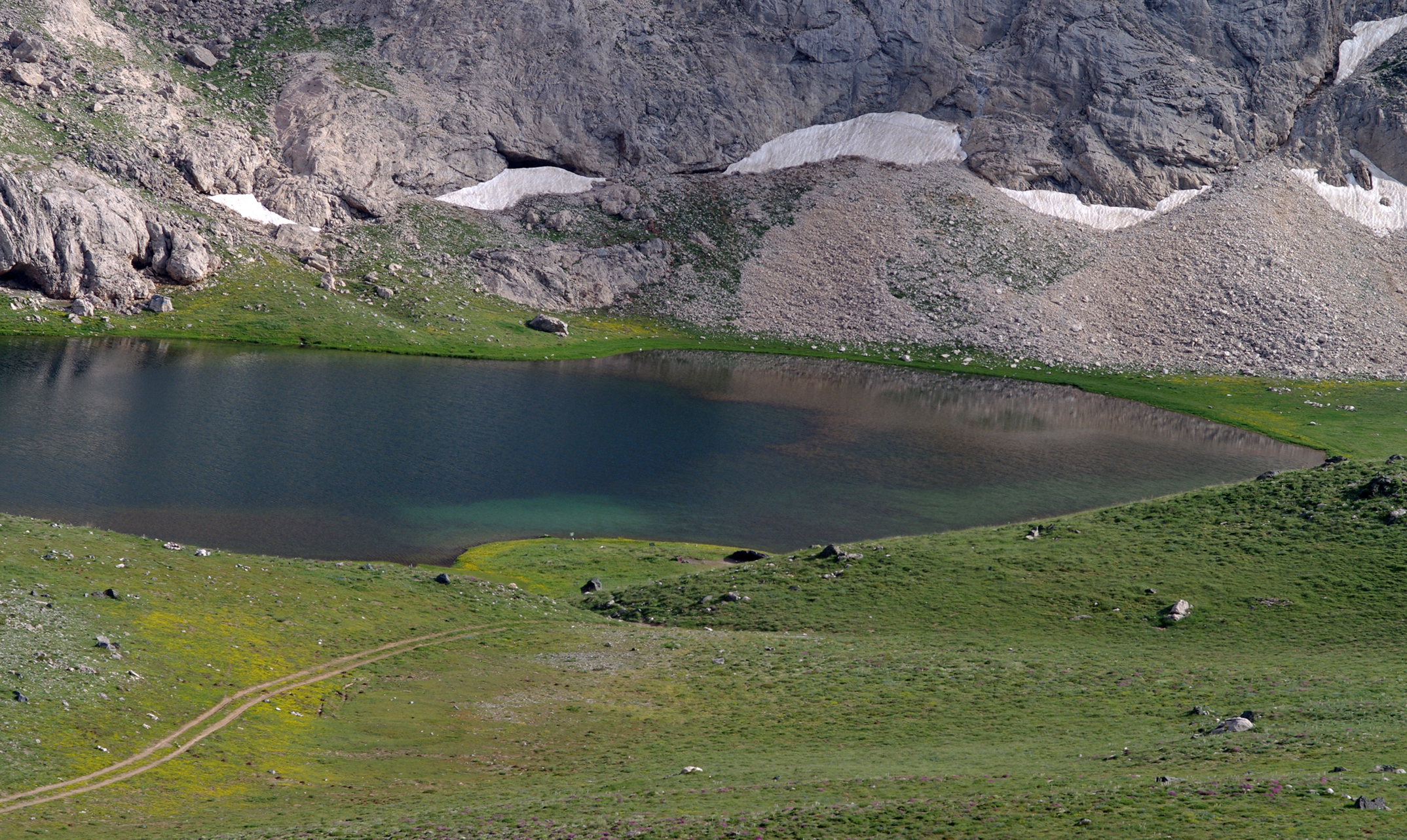 View of western end of Karagöl lake. Bolkar Montains, Çamlıyayla - Mersin, Turkey.